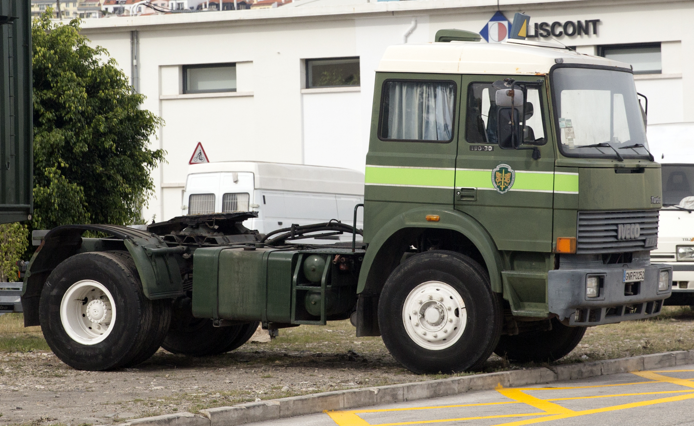 An Iveco (Fiat) Turbo 190.30 tractor truck belonging to the Portuguese National Guard seen in Lisbon, Portugal.